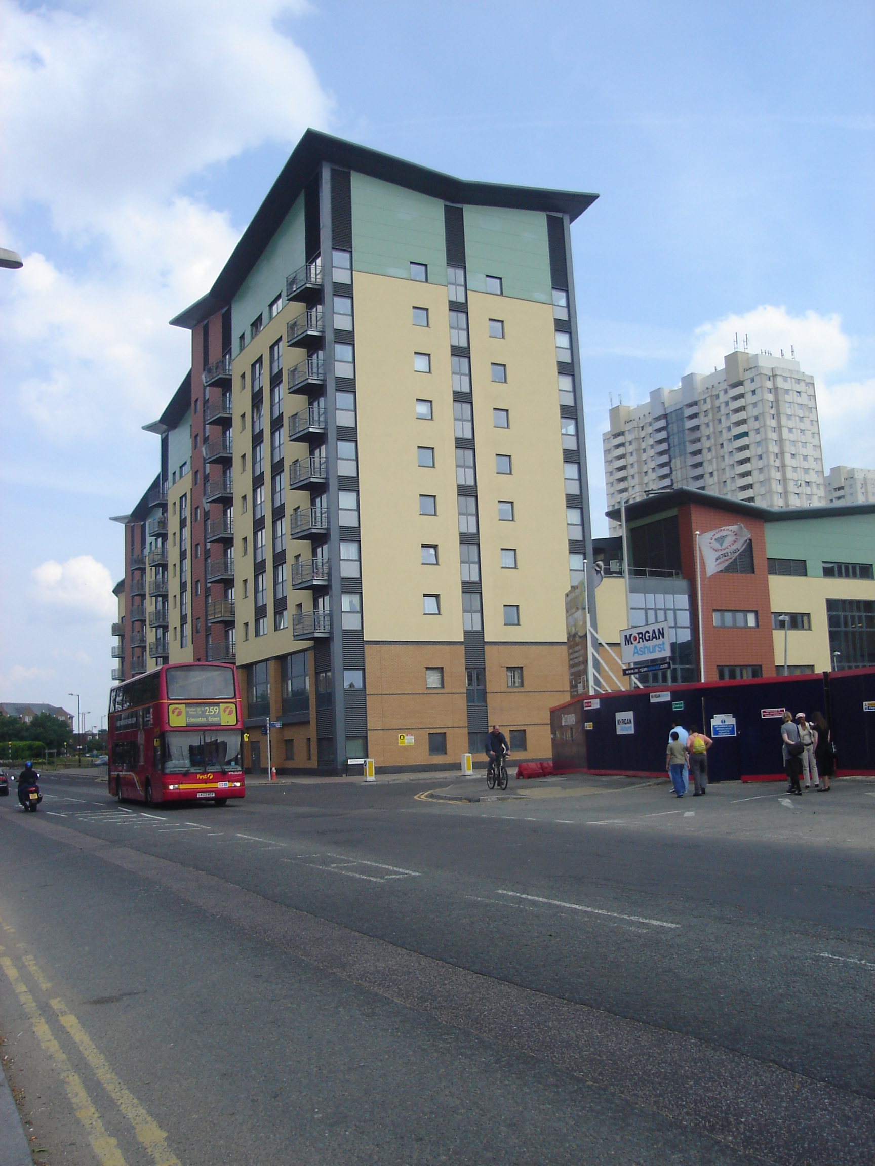 Picture of new housing and leisure centre at Edmonton Green